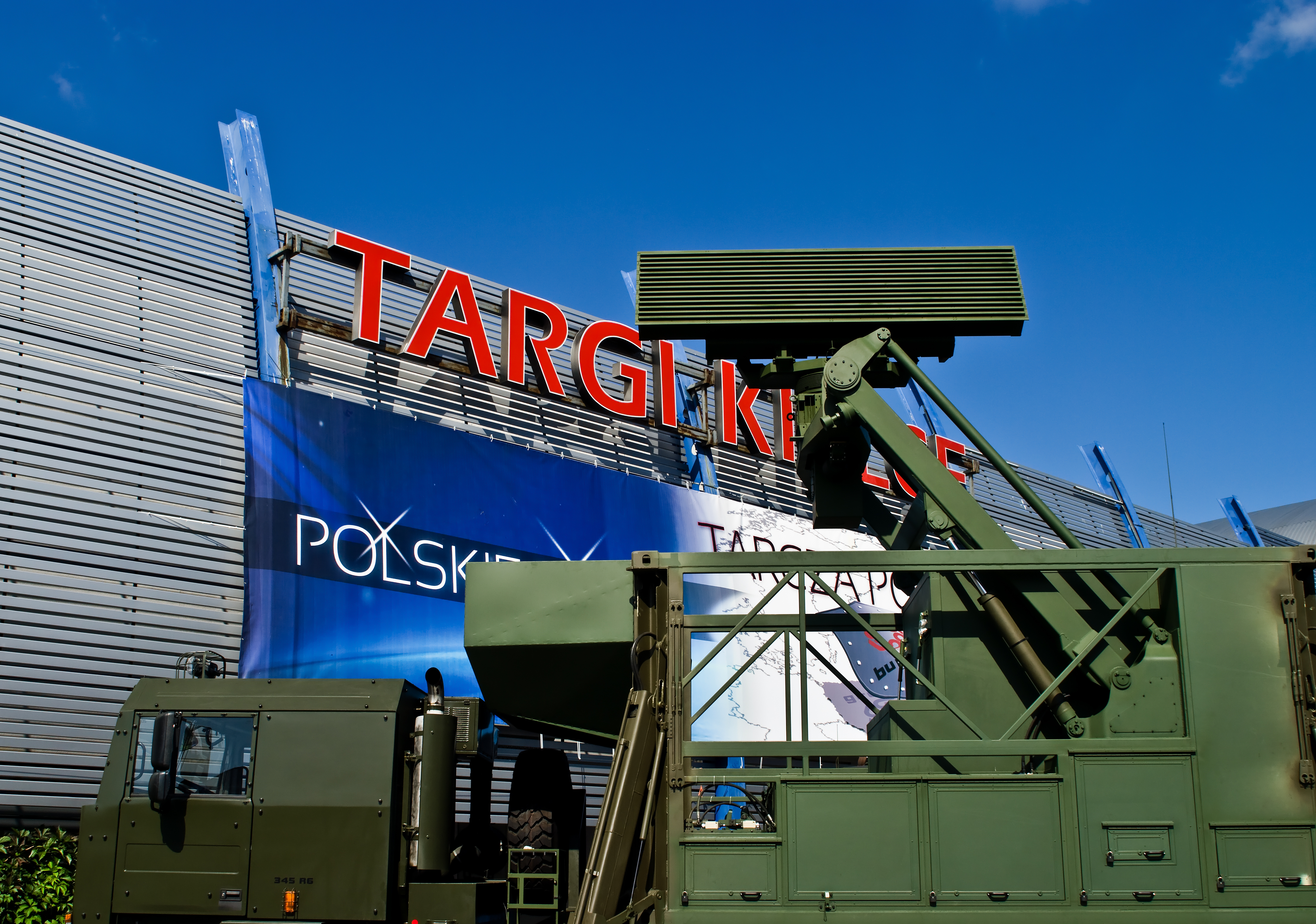 2011 International Defence Industry Exhibition MSPO in Kielce